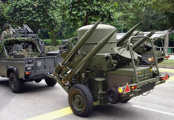 Towed Rapier SAM system